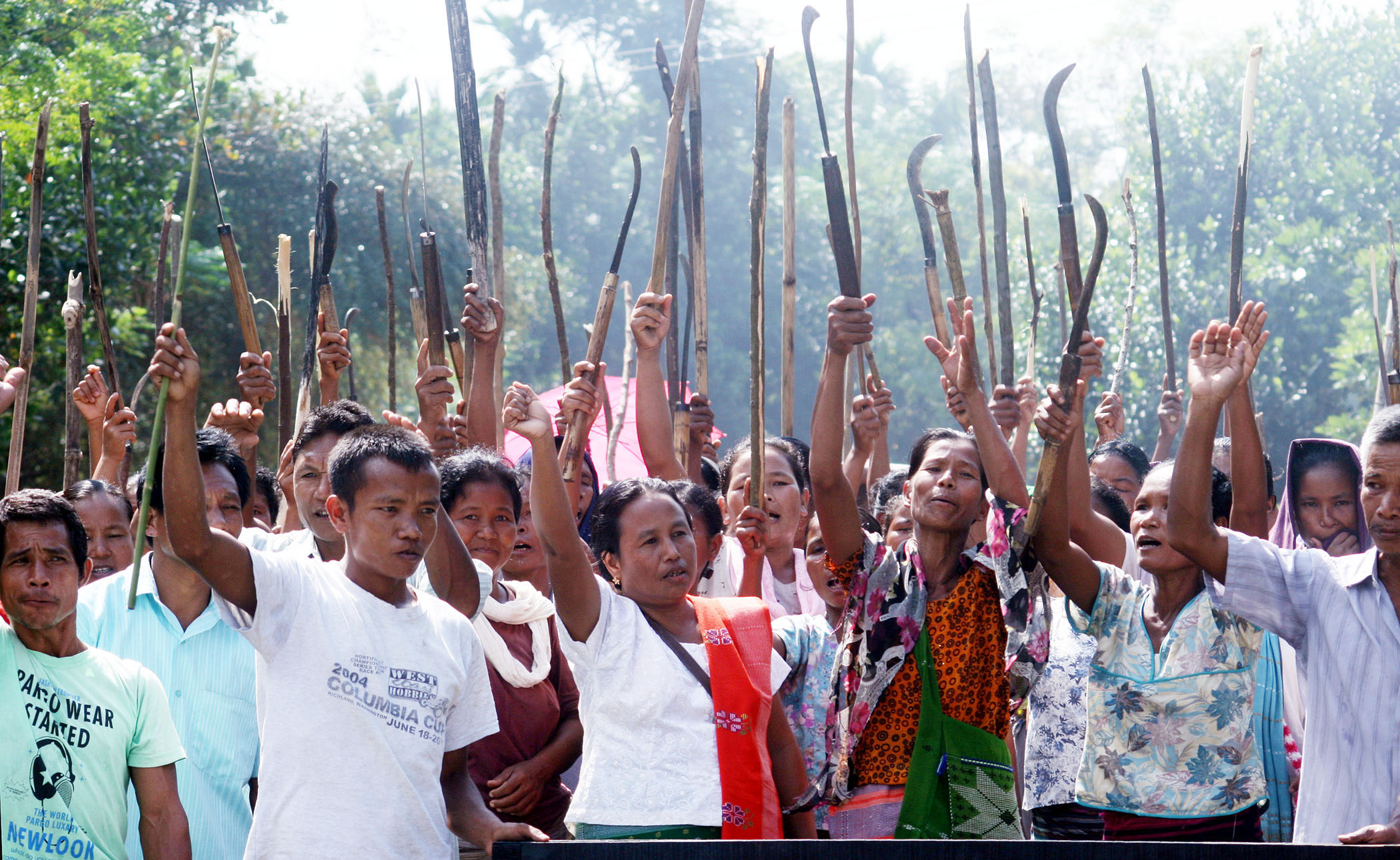 Goalpara Oct 19 – After declaration of a three-phase polling( Panchayat Election) for the Rabha Hasong Autonomous Council (RHAC) to be held between November 13 and 25 2013.The Garo National Council (GNC) Protest that Declaration. And GNC Call indefinite Bandh in Goalpara and Kamrup District. And Many Women and young Boys and Girls they come with stick and a big Native knife, On the Road -in NH-51.On Suterday.In Mesalkhawa Goalpara.